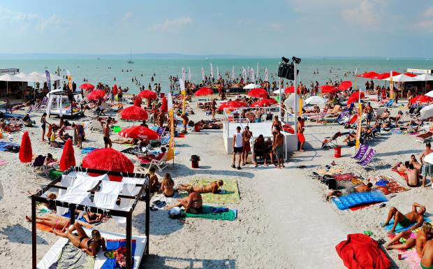 Siofok Borsodi beach